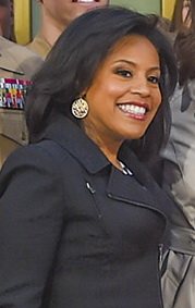 Sheinelle Jones posing as part of a photo of the Today show cast along with a number of Navy and Marine personnel during Fleet Week 2015.